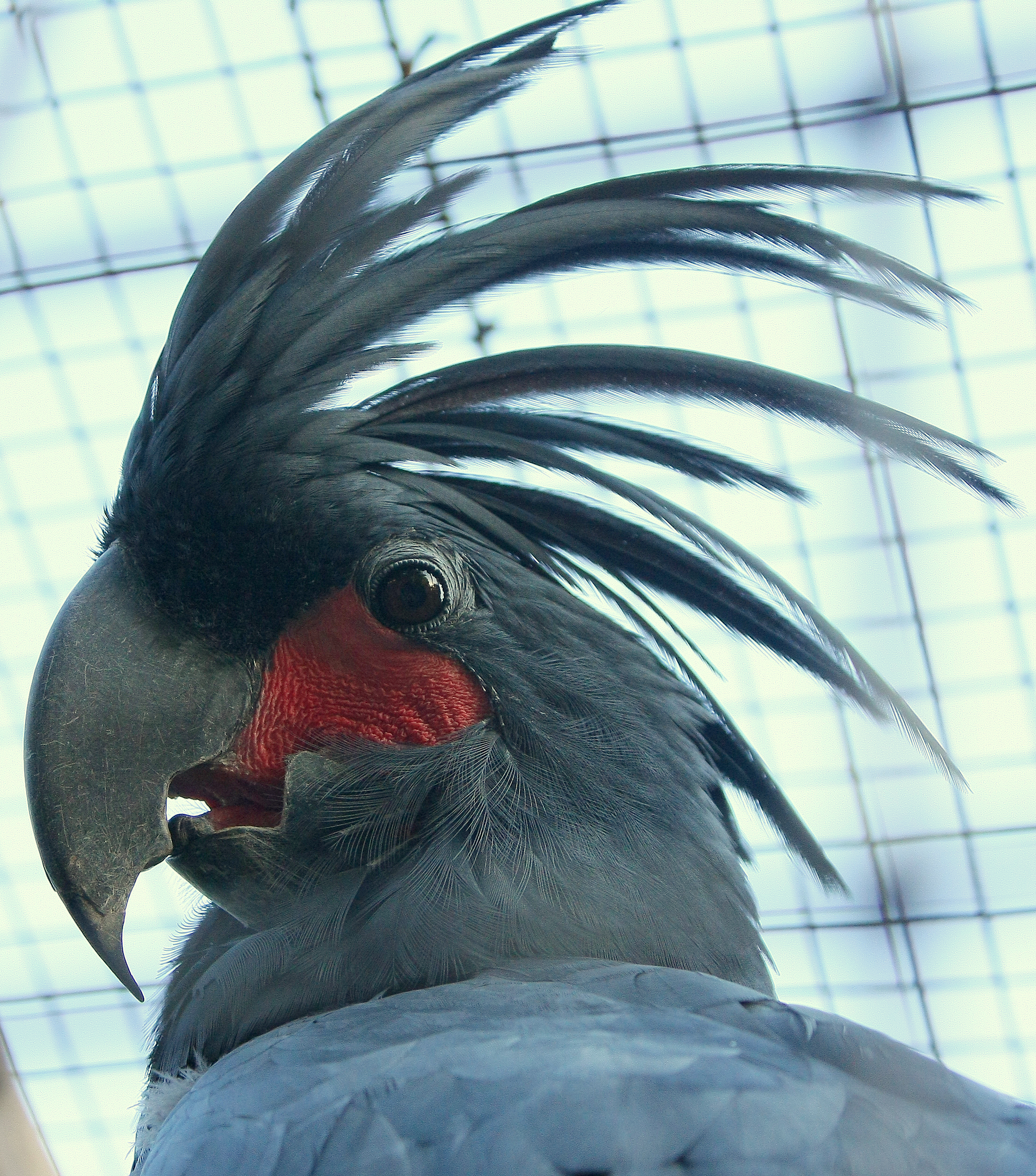 Palm Cockatoo (Probosciger aterrimus), also known as the Goliath Cockatoo. Close up of head.